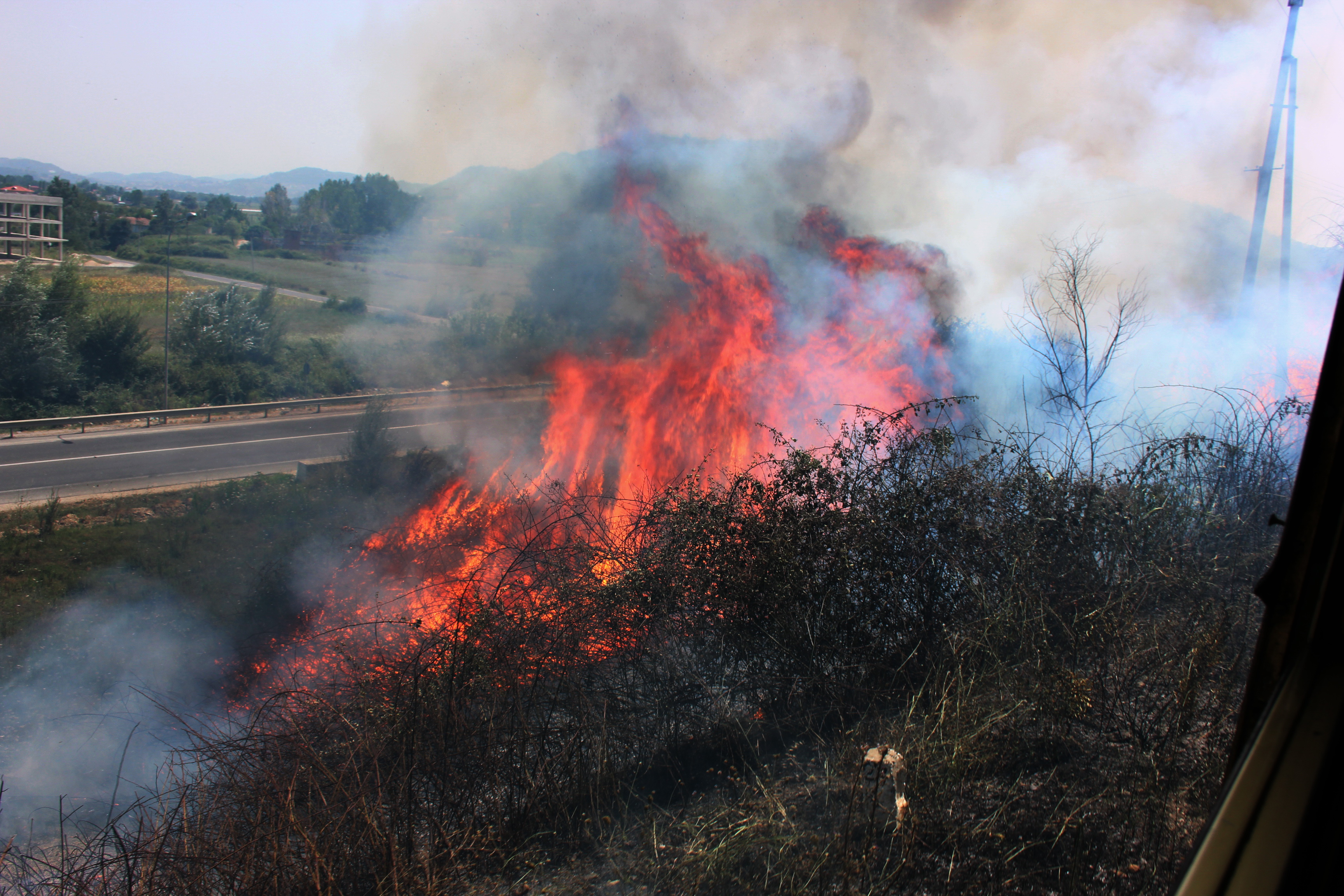 Burning embankment in Albania. Photographed from the train window.